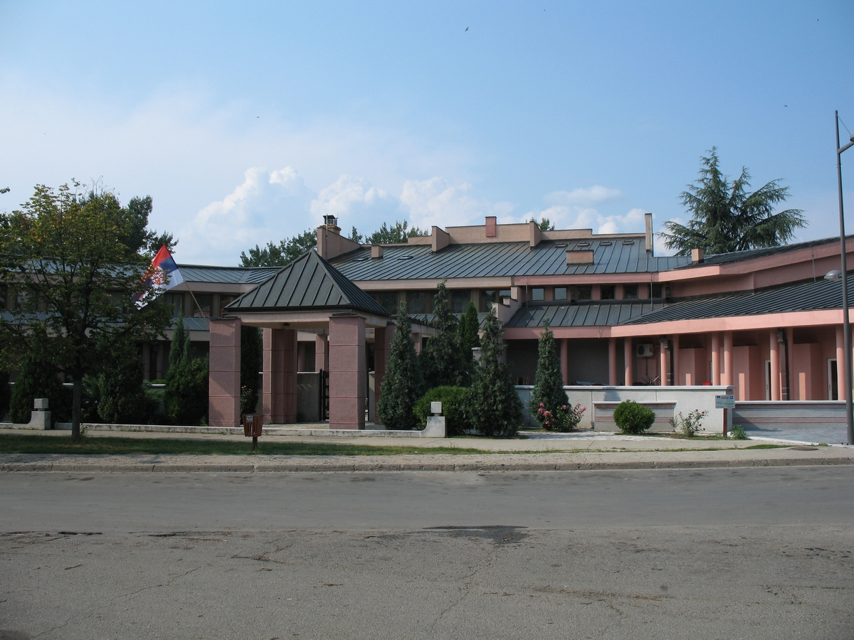 NP Djerdap HQ in Donji Milanovac on Danube in Serbia